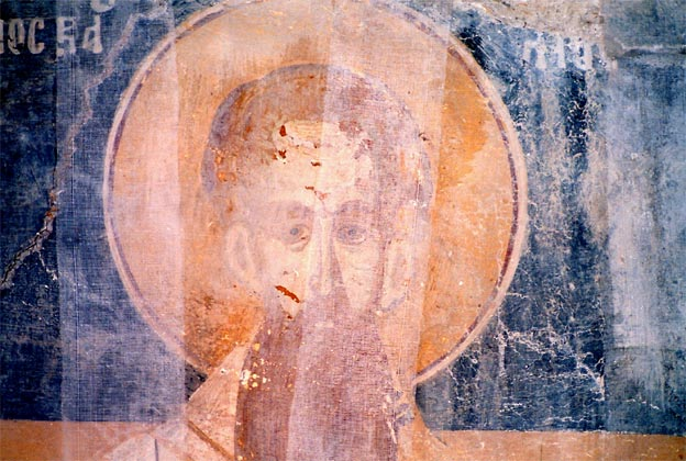 Aiani St Mihail Church St Basil